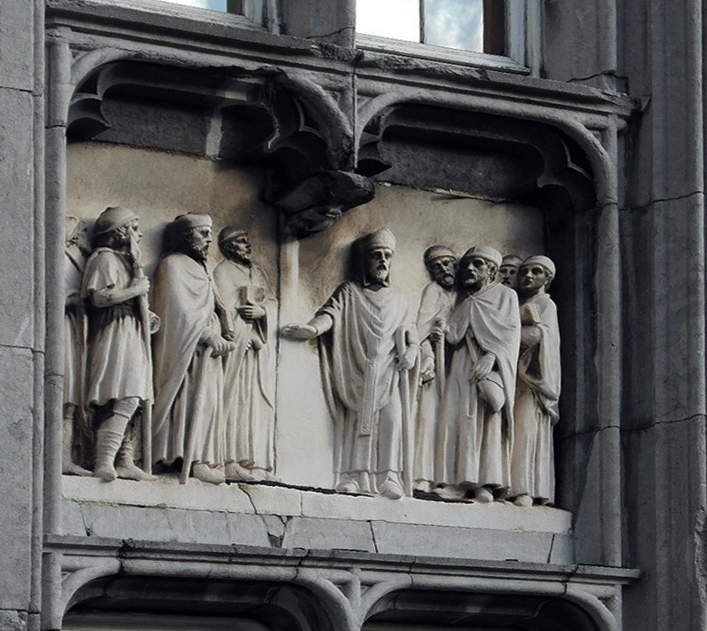 West façade of the provincial palace in Liège, Belgium Here a sculpted relief of Saint Monulph predicting the prosperity of the future Liège.